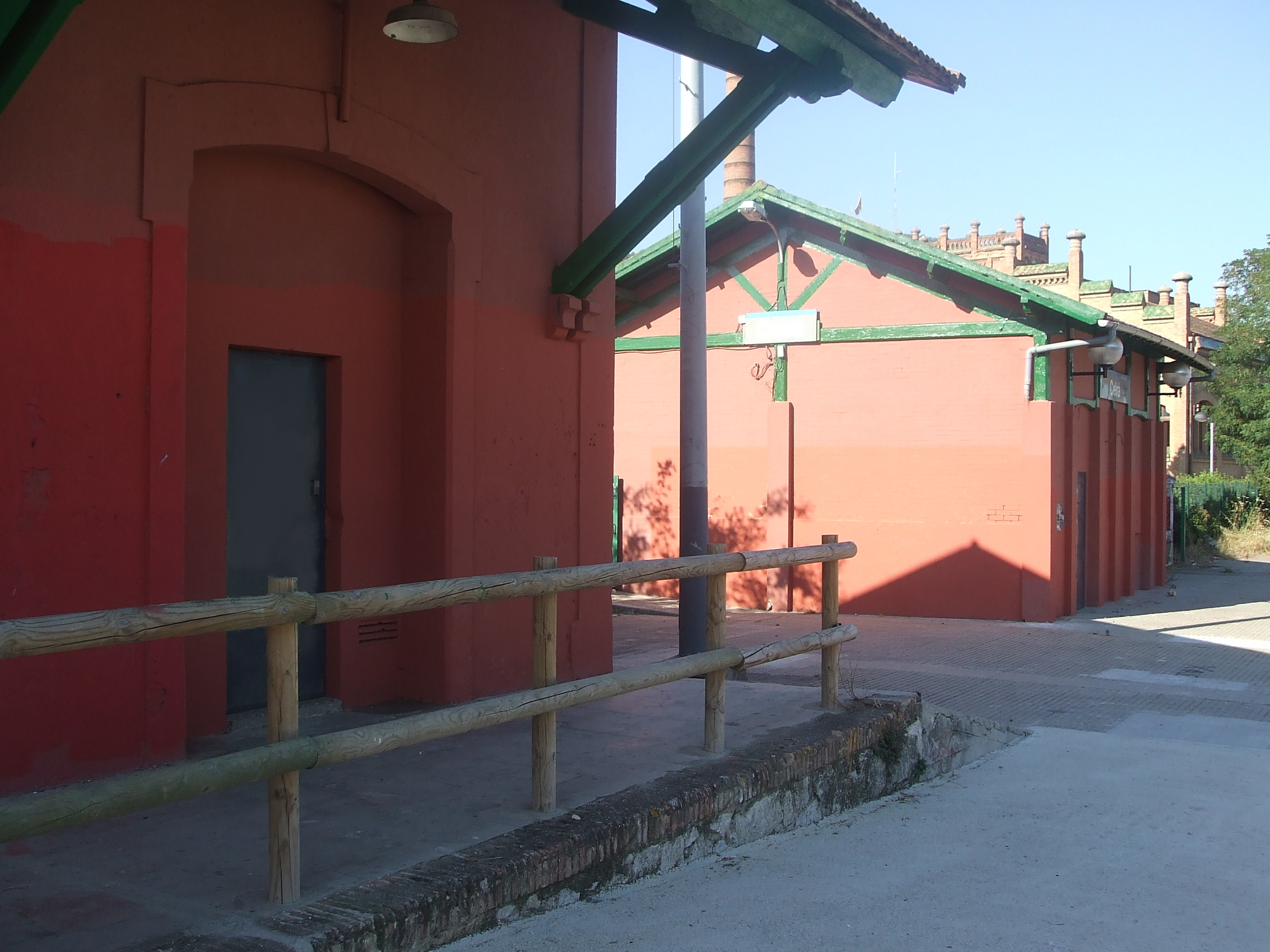 Station of Celrà, Girona